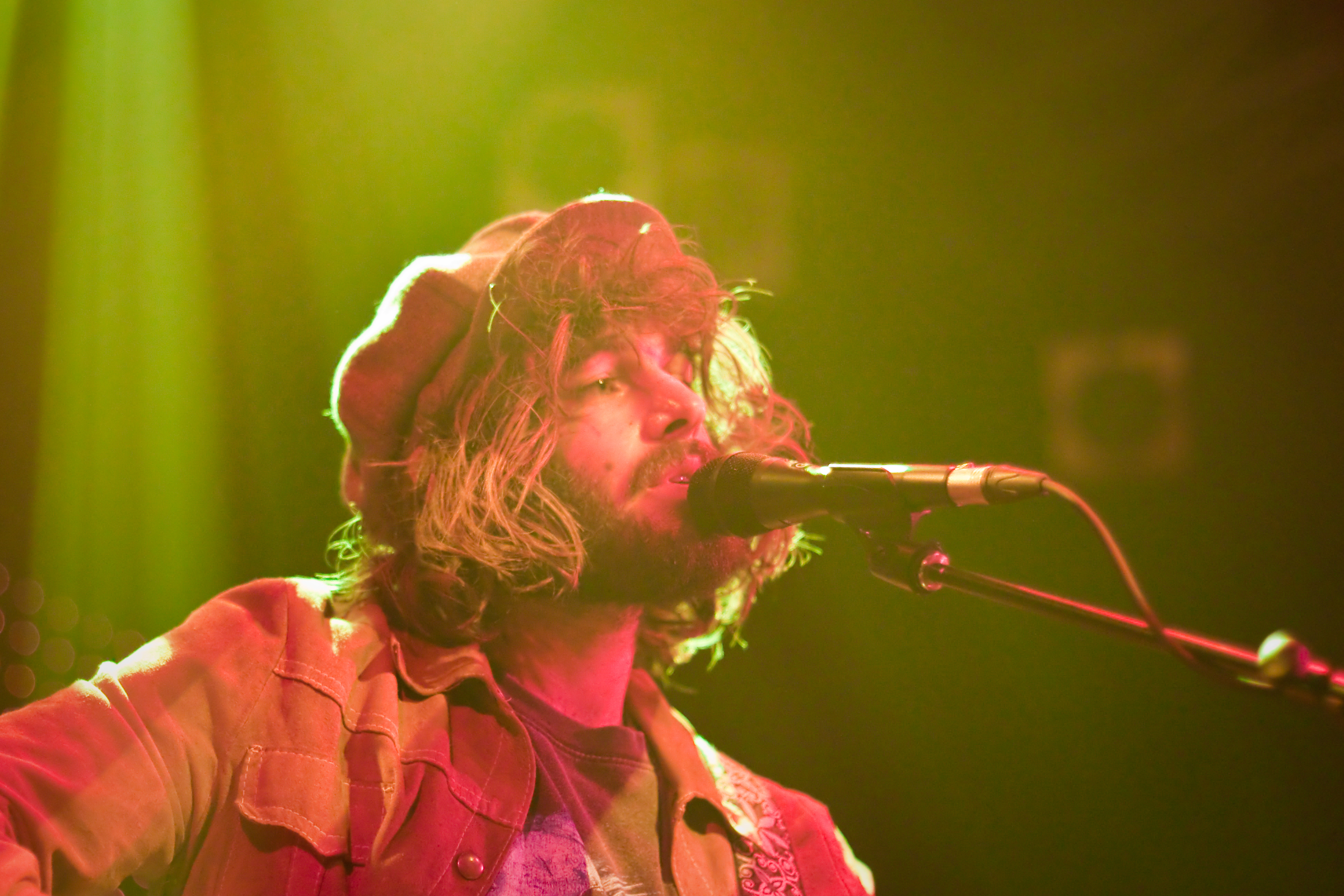 Angus & Julia Stone in Vancouver in October 2010